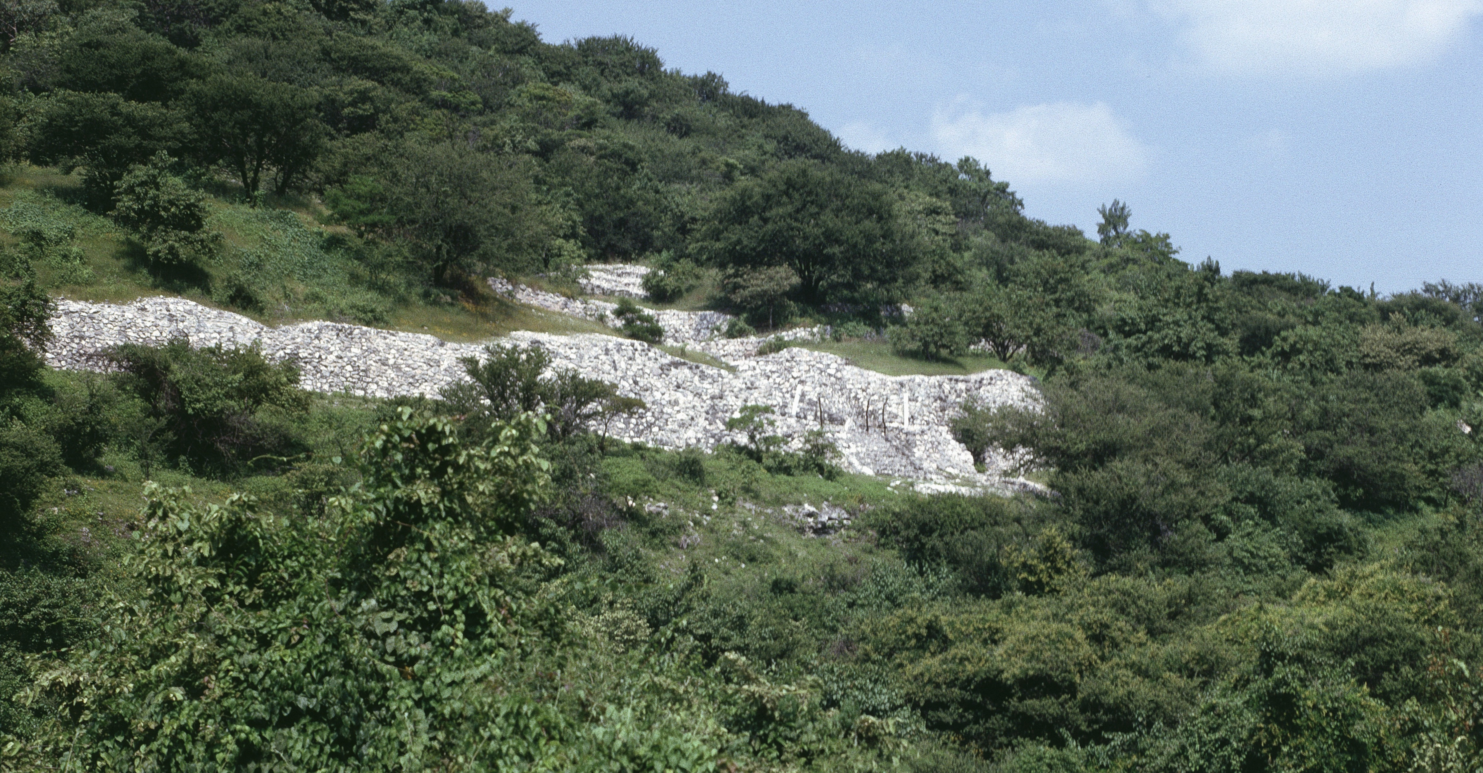 Xochicalco, Morelos, Mexico: fortification wall